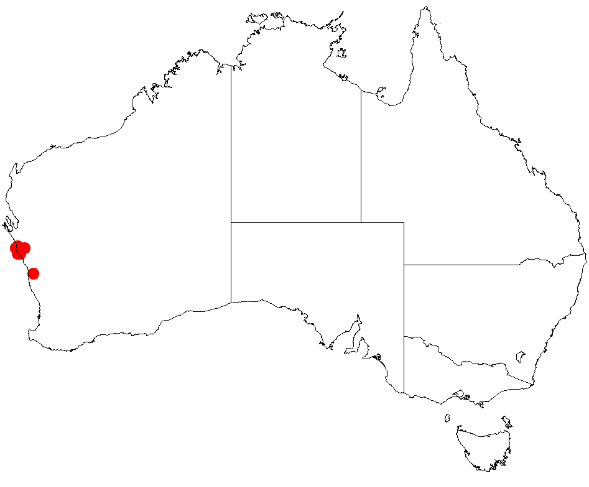 Scaevola kallophylla occurrence data downloaded from Australasian Virtual Herbarium 12 May 2019